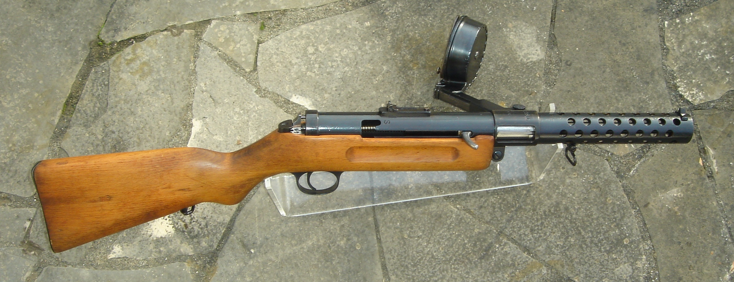 Bergmann MP 18.1 First submachine gun used in combat during WW1, precursor to all modern submachine guns